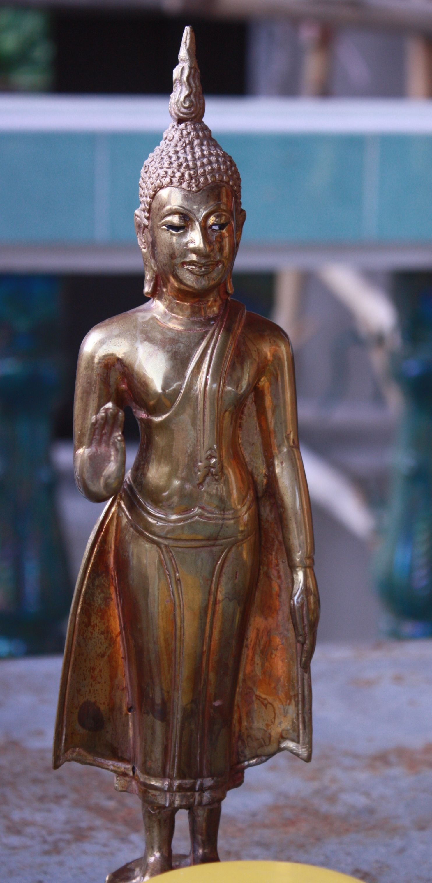 Thai statue of the Buddha: "Stopping the relatives from fighting"